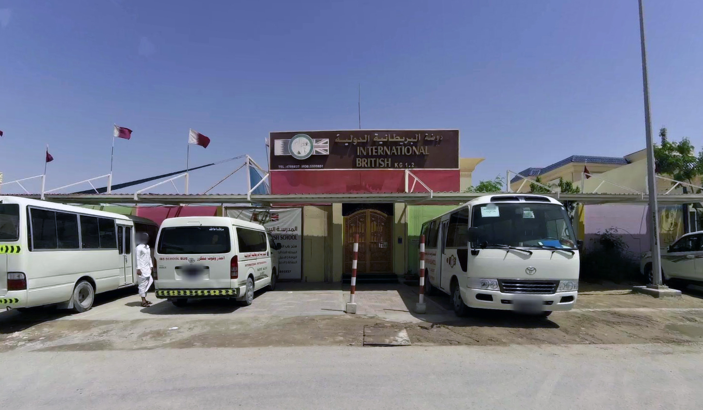 International British School located in Al Kheesa, Al Daayen Municipality, Qatar.